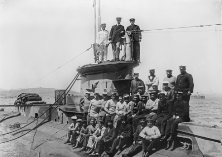 AWM caption : "Group portrait of the crew of the British Royal Navy submarine E14 as she came out from the Dardanelles straits. Identified, left to right, Lieutenant (Lt) Edward Courtney Boyle VC RN (centre), Lt Stanley (right) and Lt Lawrence (left), standing high on the conning tower".